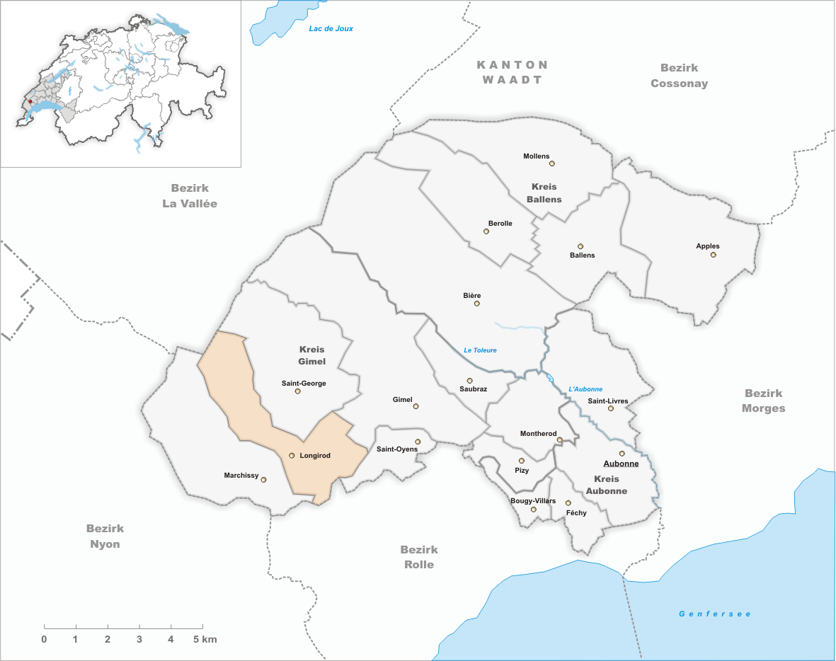 Municipality Longirod